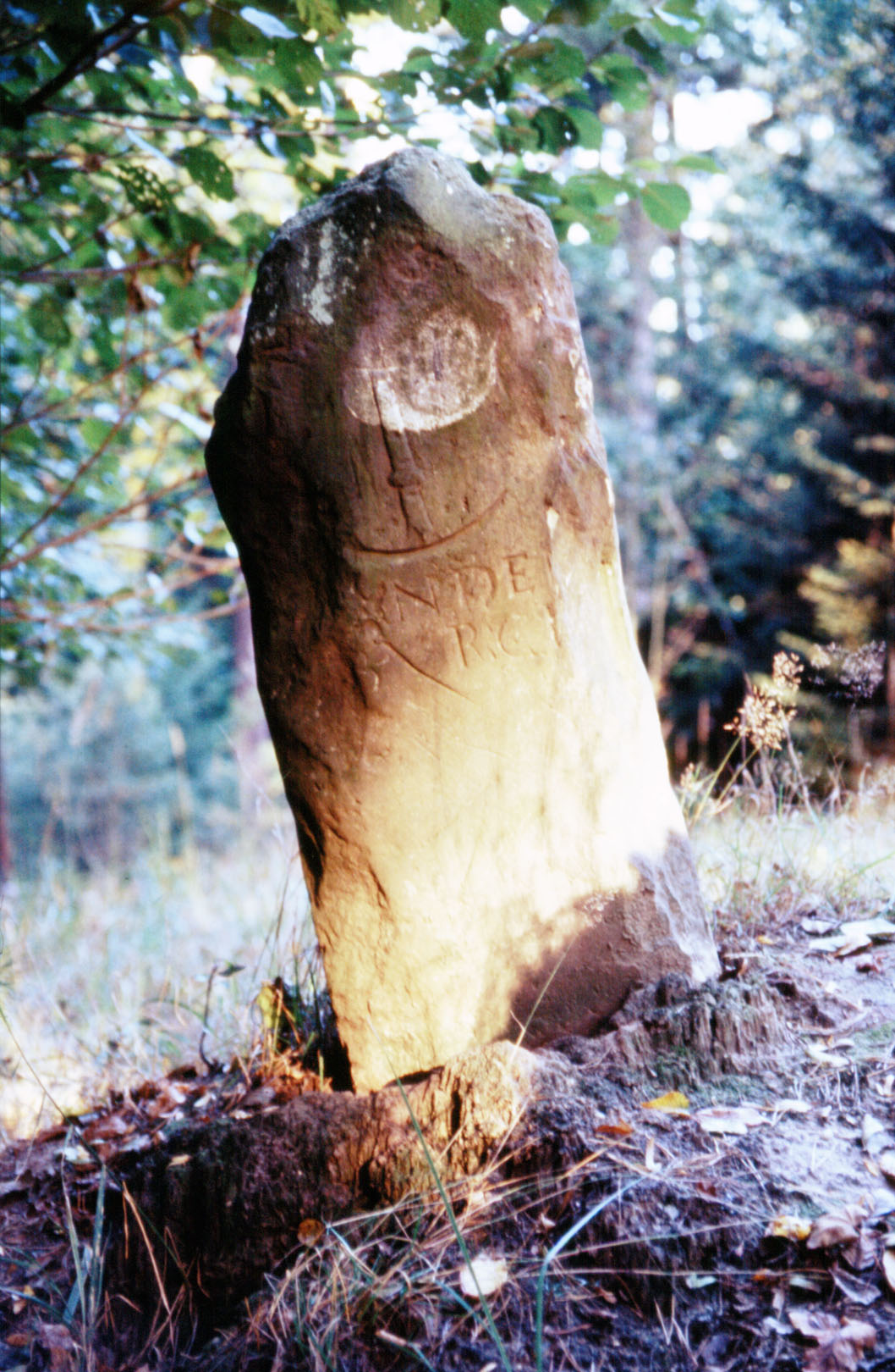 Landmark between the Electorate of Saxony and Brandenburg near Ragoesen. Ragoesen is a part of the town Belzig in Brandenburg, Germany.